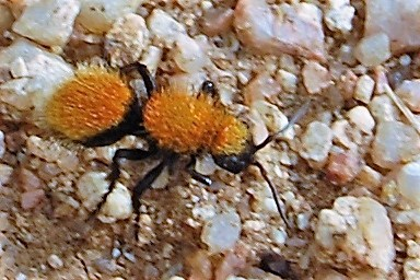 I think this is a Dasymutilla genus, similar to these pictures: [1], [2], and [3]. Picture taken in Elena Gallegos Picnic Area (see map), Albuquerque, New Mexico, with 18-55 mm f/3.5-5.6GII ED AF-S DX Zoom-Nikkor Lens.